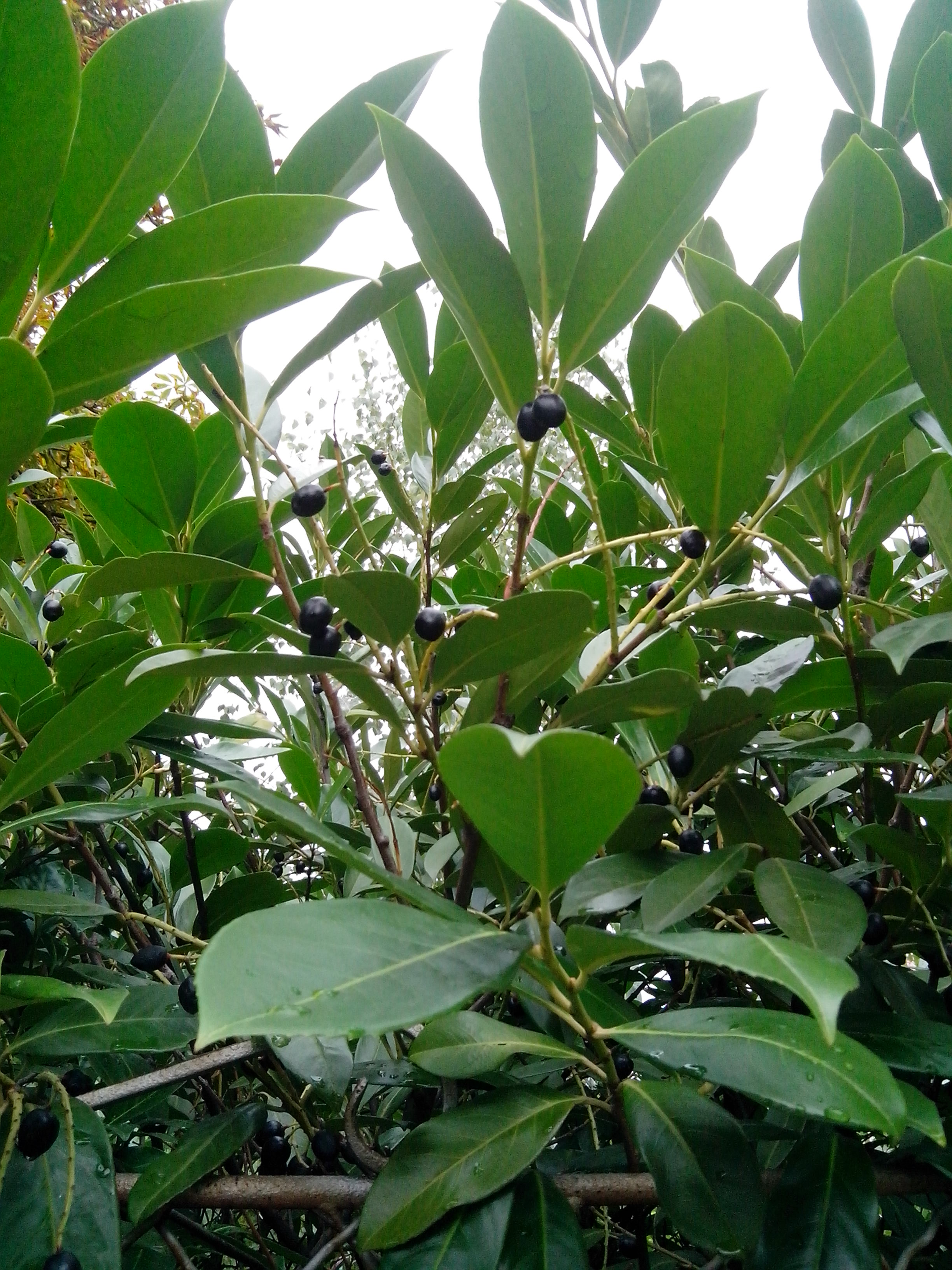 Laurocerasus sp.